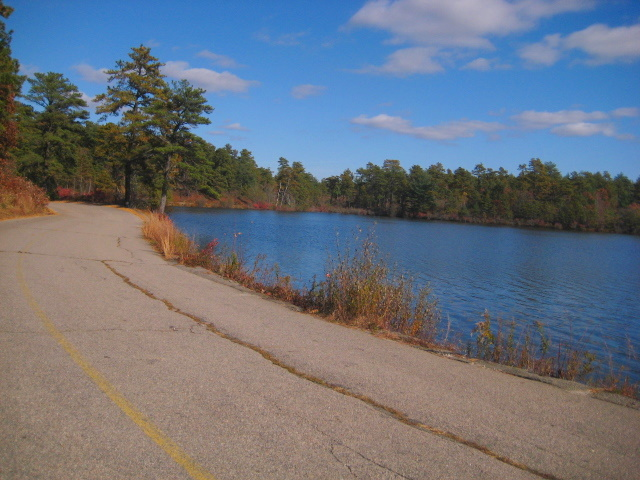 Photo from Lower College Pond Rd, Myles Standish State Forest, Plymouth County, Massachusetts, USA. Pond is New Long Pond.